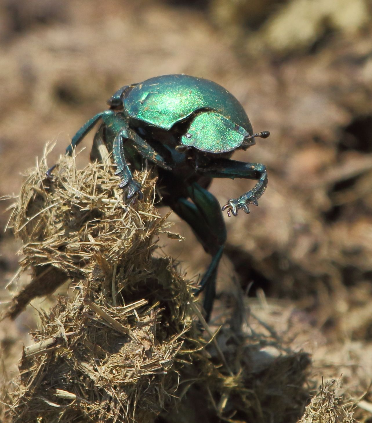 Garreta nitens, a dung beetle, on rhinoceros dung. In Ithala Game Reserve, KwaZulu-Natal. DungBeetleMAP record no. 246